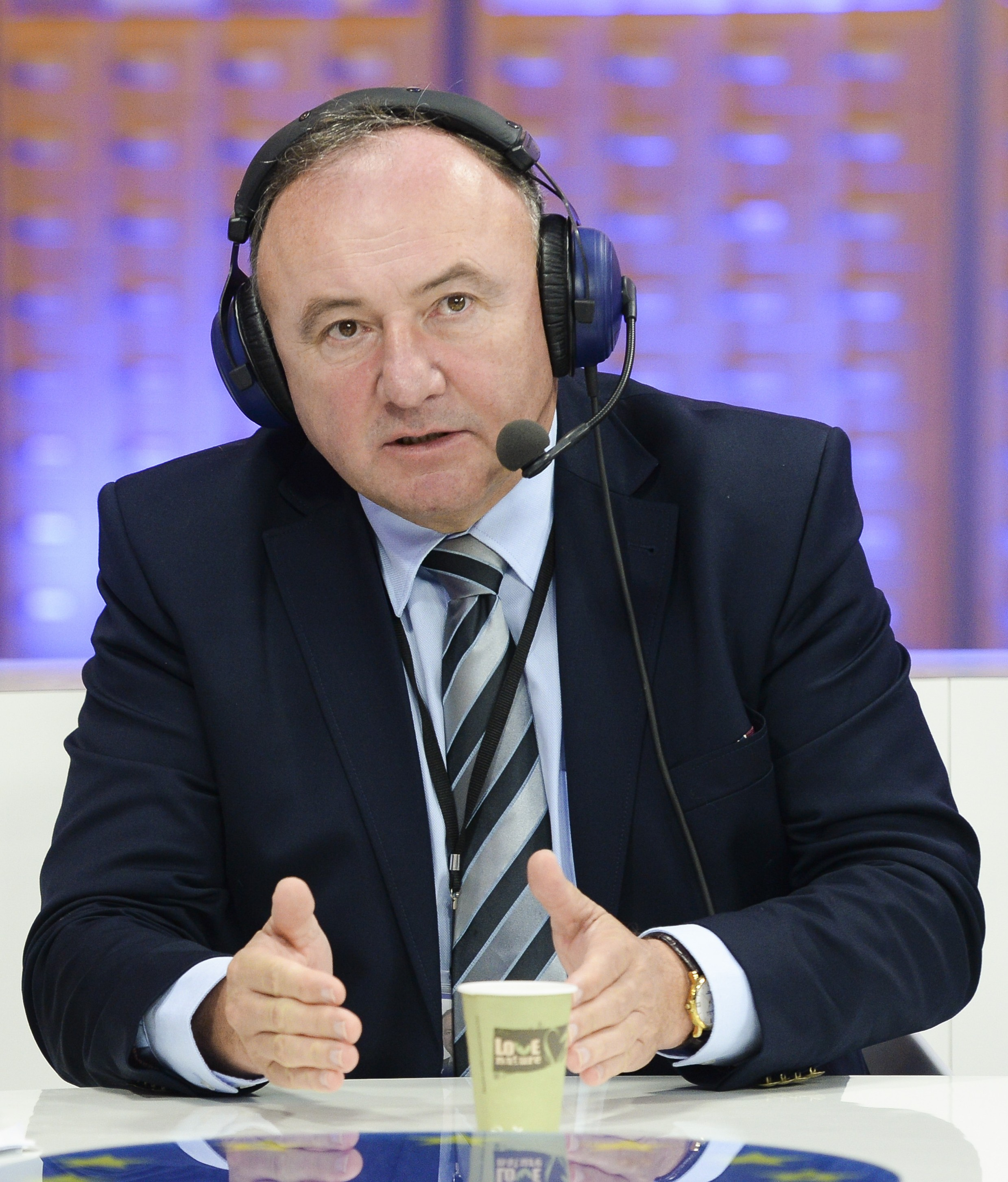 Hungarian